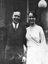 Photograph of pioneer missionary don and lyda mcclure.